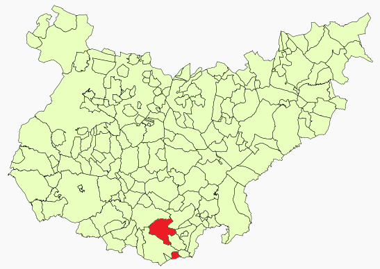 Montemolín